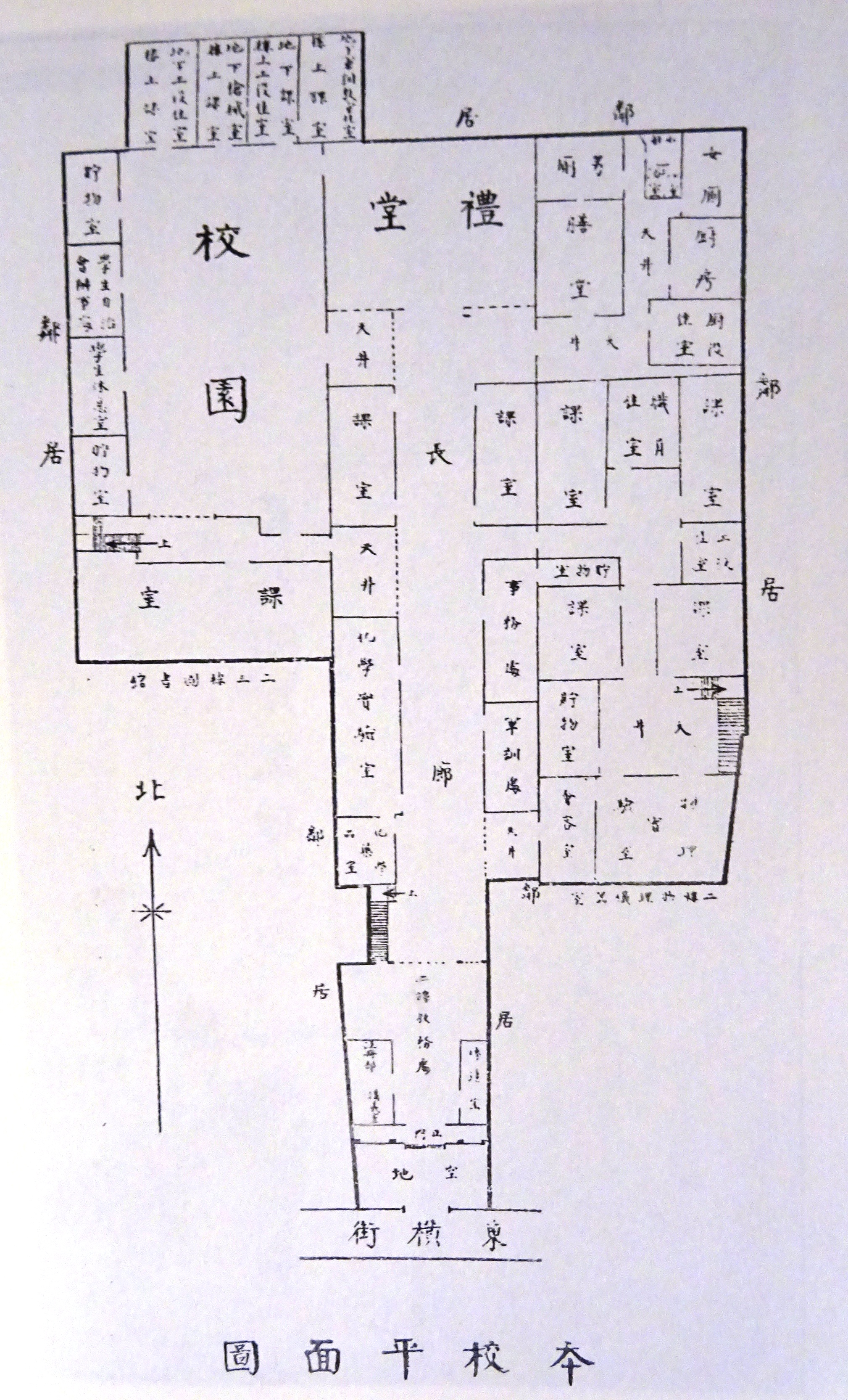 Old Map of Private Canton University in Tung Hang Kai.